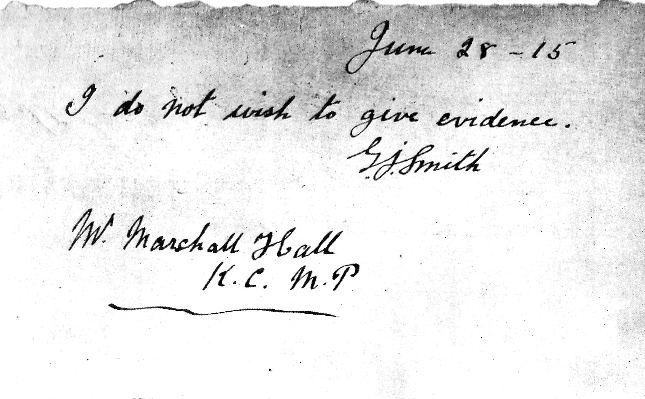 Handwritten note by George Joseph Smith to his counsel, Edward Marshall Hall, indicating that he did not wish to give evidence in his own defence.